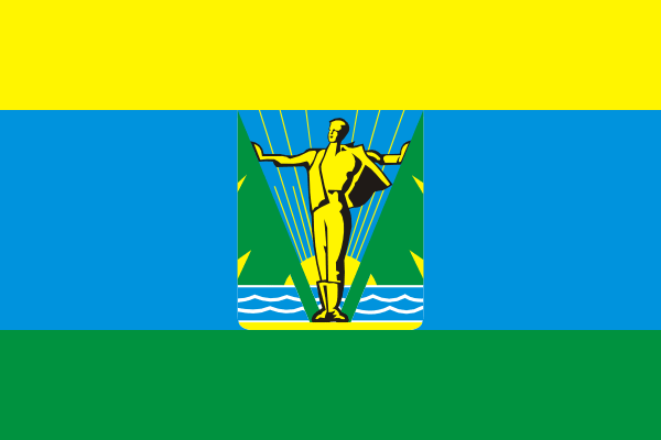 Flag of Komsomolsk-on-Amur, Khabarovsk Territory, Russia